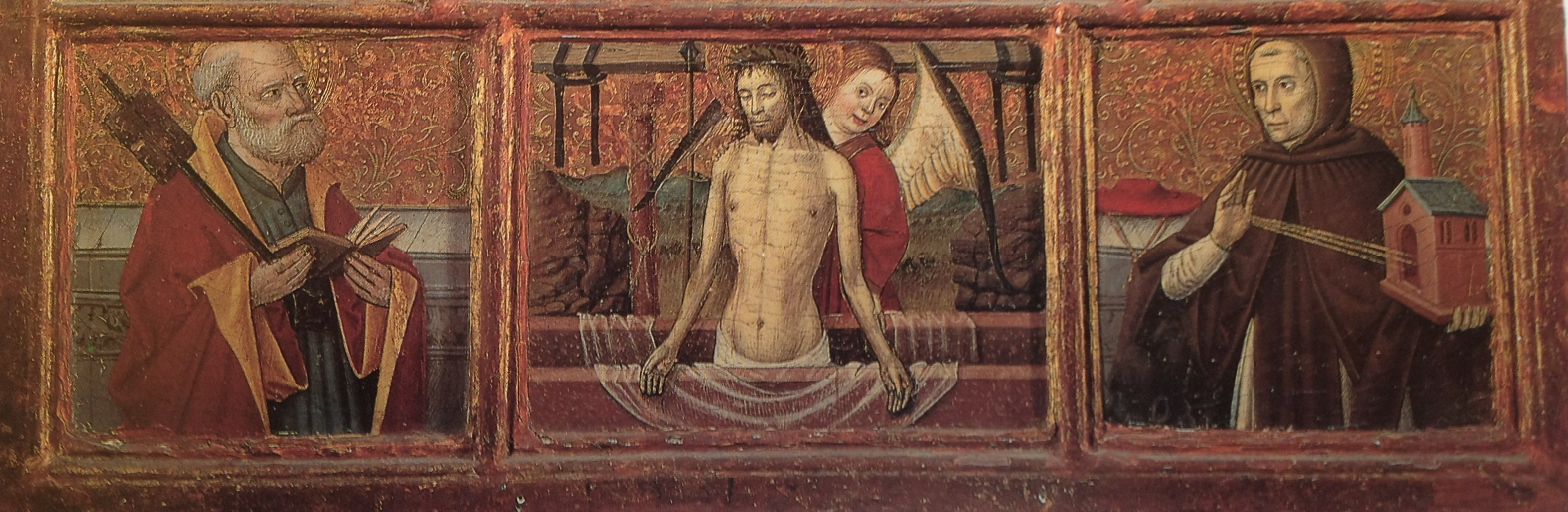 Jaume Huguet artwork Artist Jaume Huguet (1412–1492) DescriptionCatalan painterDate of birth/deathcirca 14121492Location of birth/deathVallsBarcelonaWork locationBarcelona, Zaragoza, TarragonaAuthority control VIAF: 96539132 ISNI: 0000 0001 1776 8460 ULAN: 500115623 LCCN: nr94026707 WGA: HUGUET, Jaume WorldCat TitleRetaule de l'Epifania, detallDescription Ecce Homo Datecirca 1455Mediumtempera on panel,DimensionsHeight: 122 cm (48 in). Width: 75 cm (29.5 in).Current location Museu Episcopal de Vic Native nameMuseu Episcopal de VicLocationVic, provincia de Barcelona, (Spain)Coordinates41° 55′ 43″ N, 2° 15′ 20″ E Established1891Website control VIAF: 136050720 ISNI: 0000 0001 2164 425X ULAN: 500312506 LCCN: n85118280 GND: 1088816096 WorldCat Source/PhotographerOwn workPermission (Reusing this file) This is a faithful photographic reproduction of a two-dimensional, public domain work of art. The work of art itself is in the public domain for the following reason: This work is in the public domain in its country of origin and other countries and areas where the copyright term is the author's life plus 100 years or less. You must also include a United States public domain tag to indicate why this work is in the public domain in the United States. This file has been identified as being free of known restrictions under copyright law, including all related and neighboring rights. The official position taken by the Wikimedia Foundation is that "faithful reproductions of two-dimensional public domain works of art are public domain". This photographic reproduction is therefore also considered to be in the public domain in the United States. In other jurisdictions, re-use of this content may be restricted; see Reuse of PD-Art photographs for details. Ecce Homo